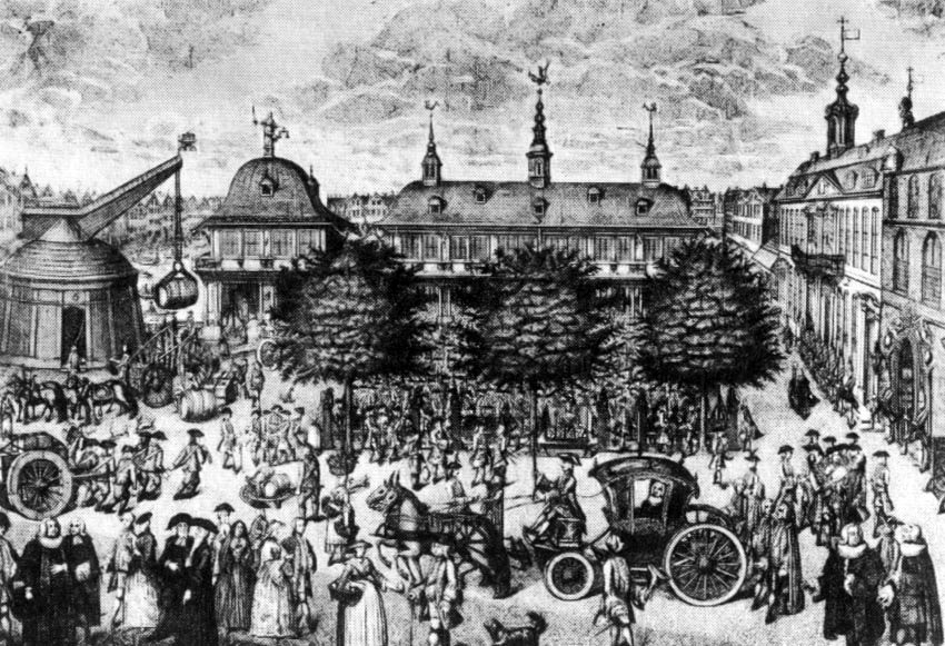 Hamburg's town centre